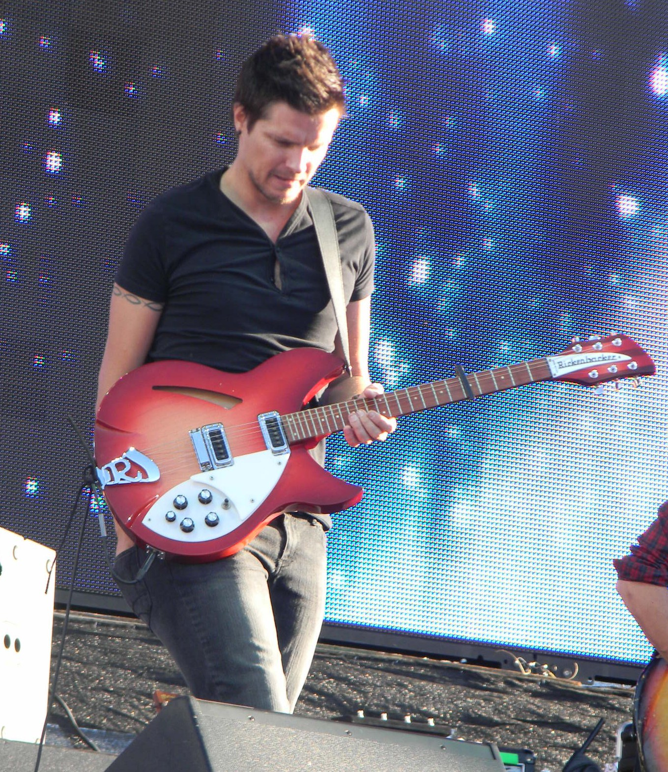 Elvis Blue2.jpg